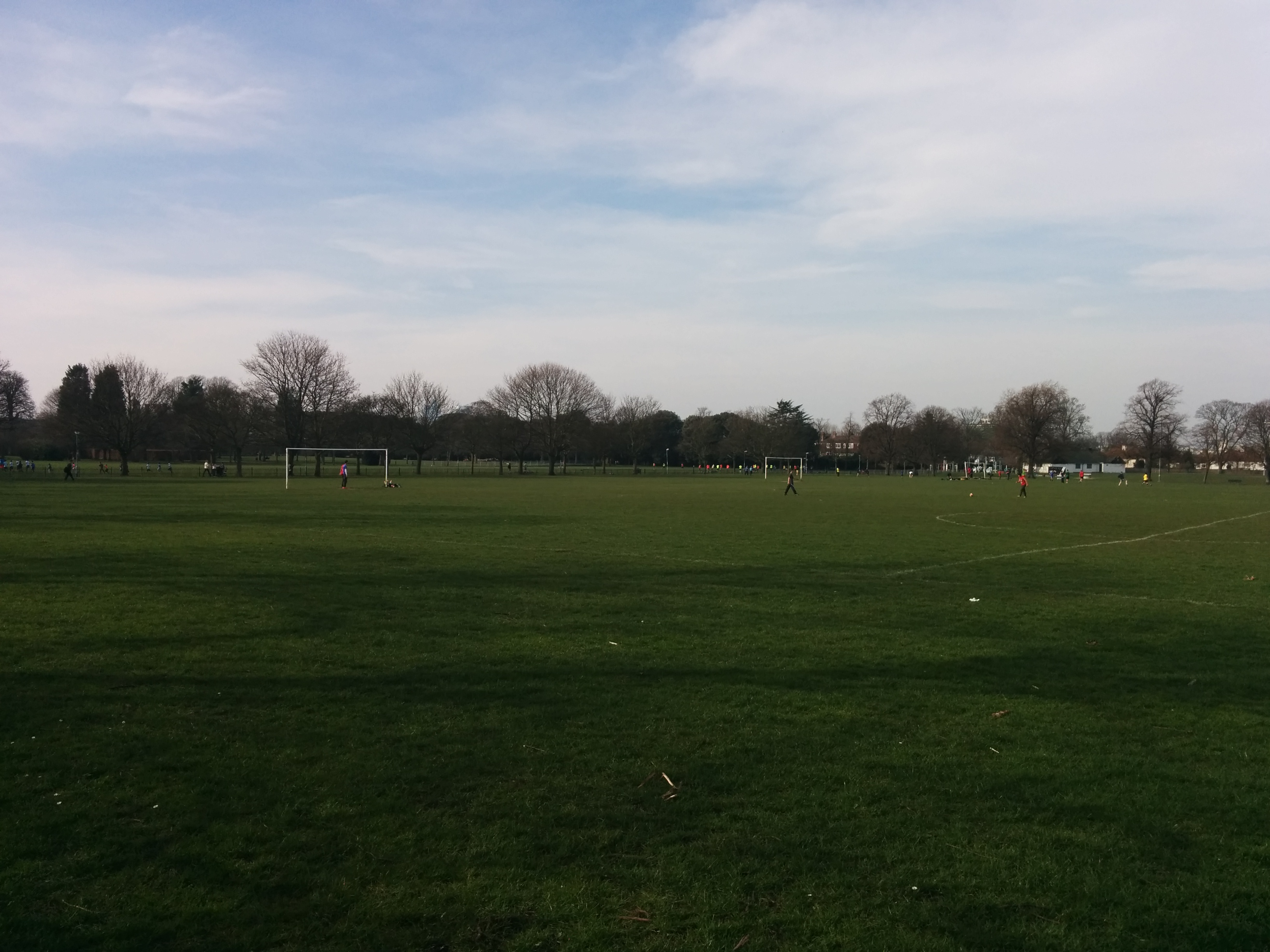 Football pitches in Charlton Park